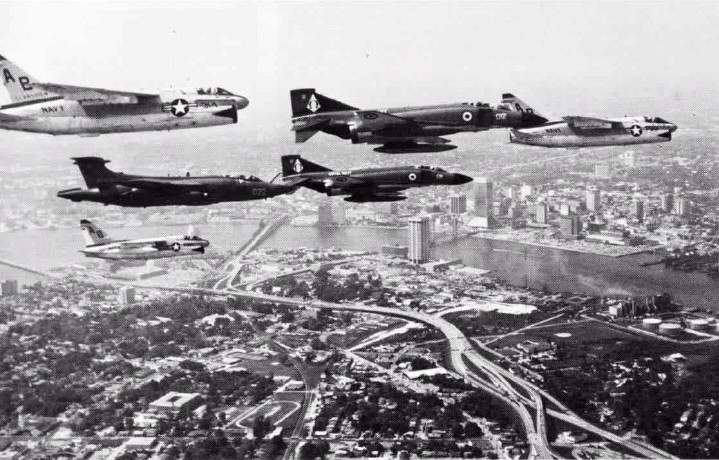 A flight of three U.S. Navy Vought A-7E Corsair IIs, two Royal Navy McDonnell Douglas Phantom FG.1 and a Royal Navy Blackburn Buccaneer S.2 in 1976. The Corsairs were from attack squadron VA-46 Clansmen, Carrier Air Wing 1 (CVW-1), aboard the aircraft carrier USS John F. Kennedy (CV-67). The Phantoms were from 892 Naval Air Squadron, and the Buccaneer 809 Naval Air Squadron, of HMS Ark Royal (R09)´s air group.